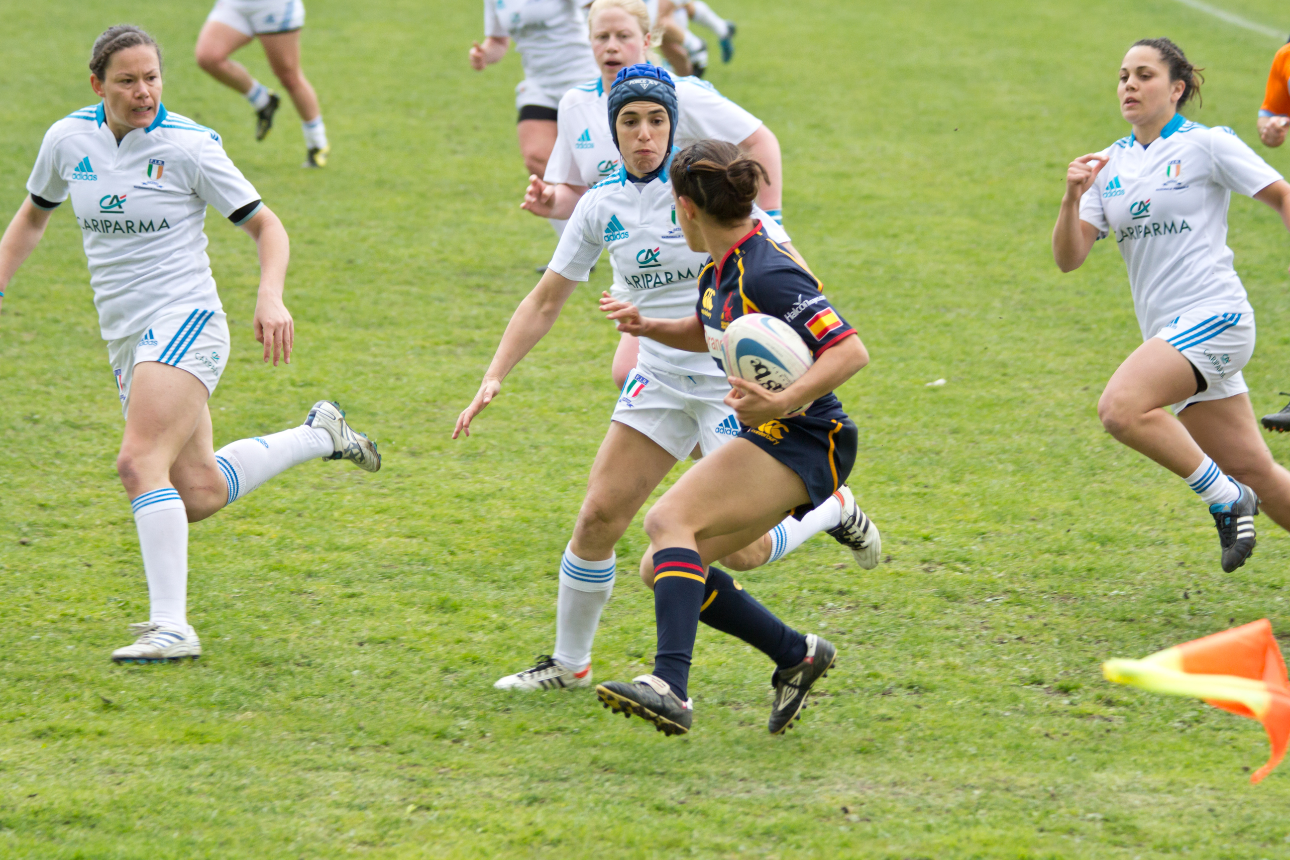 Game of the 2013 Women's European Qualification Tournament between Italy and Spain 7-38(b).